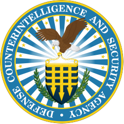 Seal of the Defense Counterintelligence and Security Agency (DCSA)